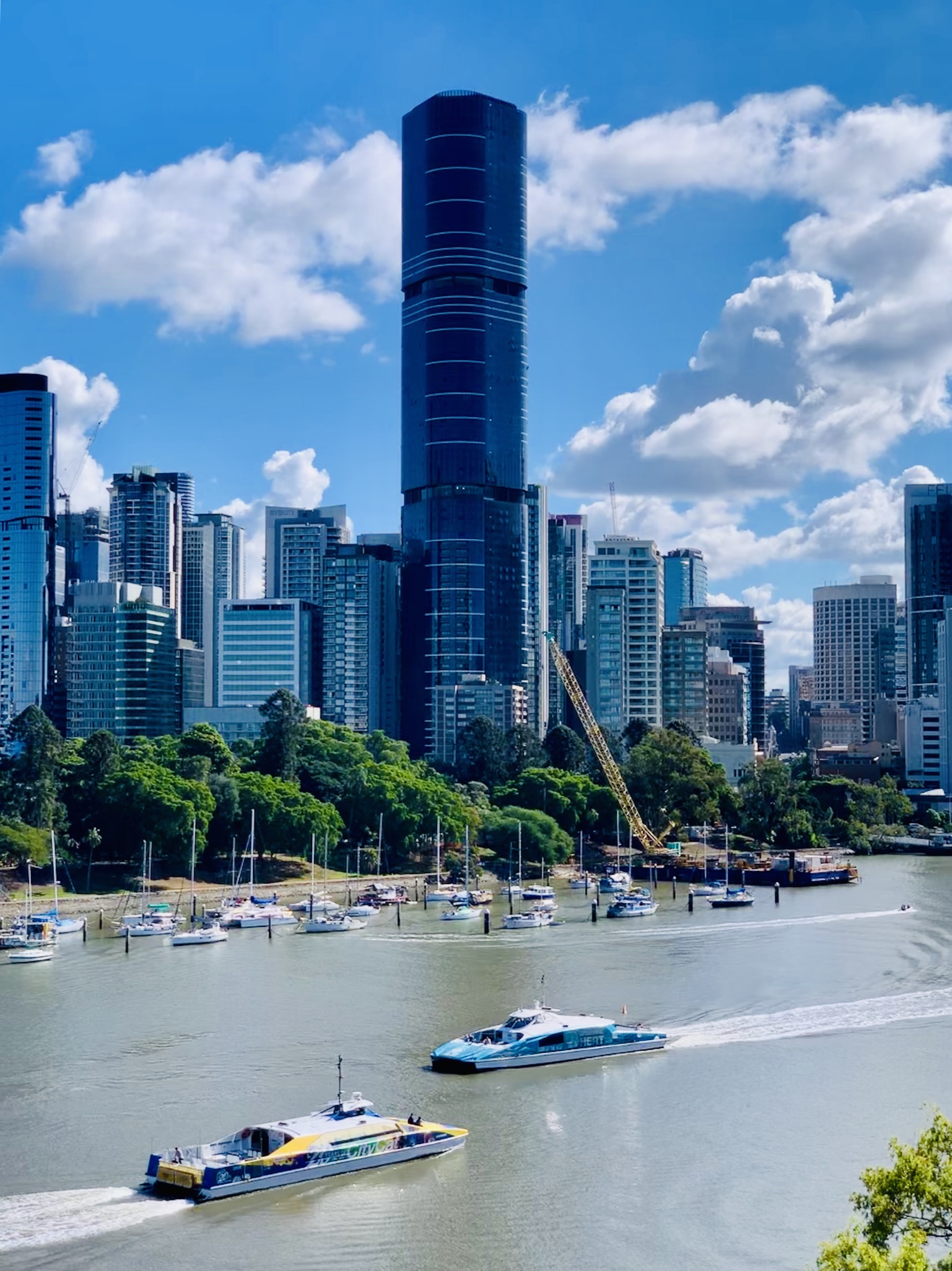 Brisbane Skytower seen from Kangaroo Point, Queensland in June 2019